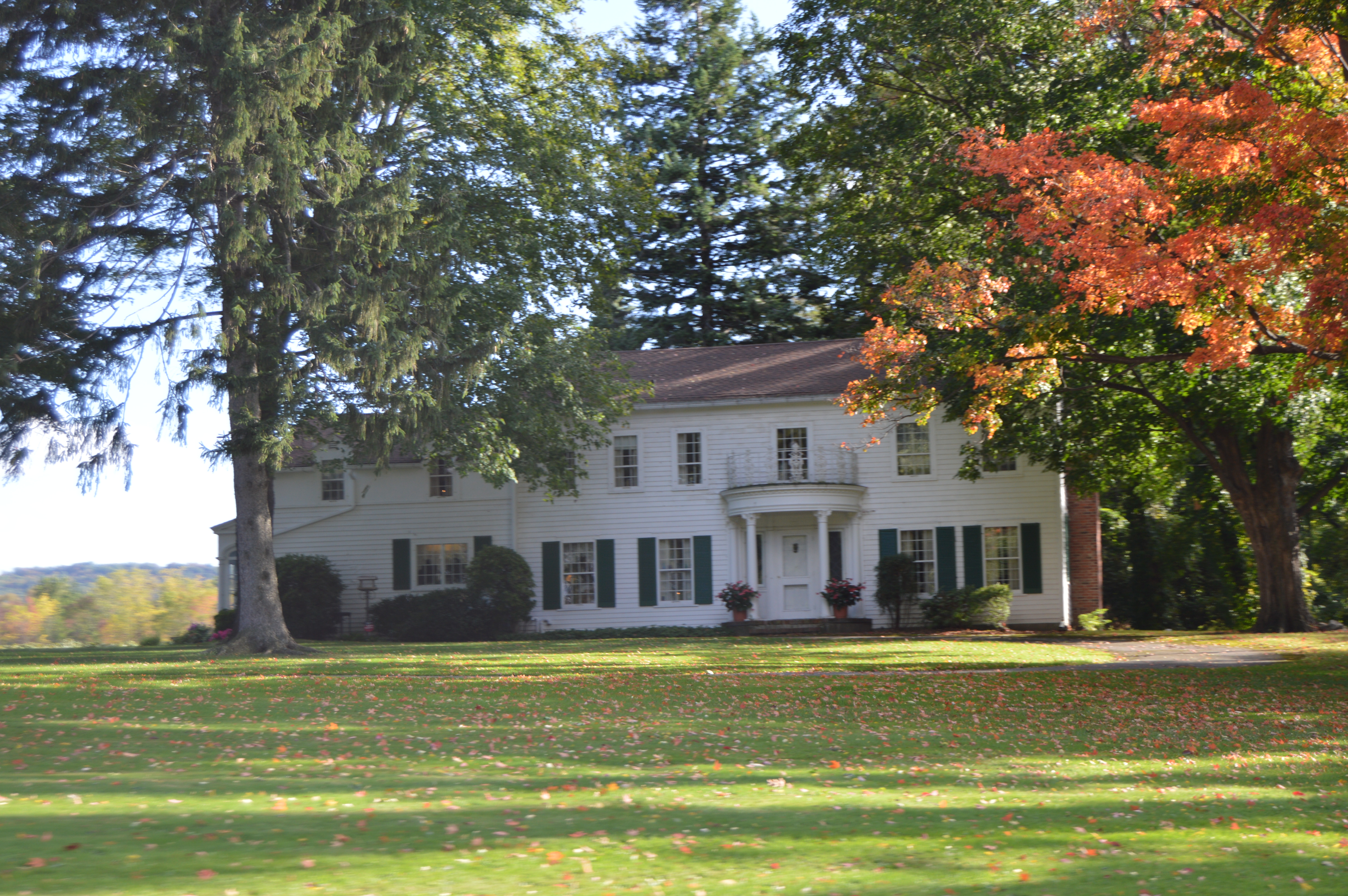 Front of the main house at the McMahan Homestead, located at 232 W. Main Street (U.S. Route 20) in Westfield, New York, United States. Built in 1820, it is listed on the National Register of Historic Places.